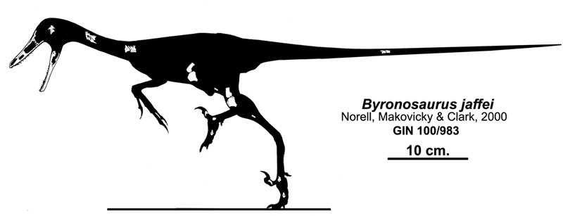 Skeletal restoration of Byronosaurus jaffei. Scale bar = 10cm